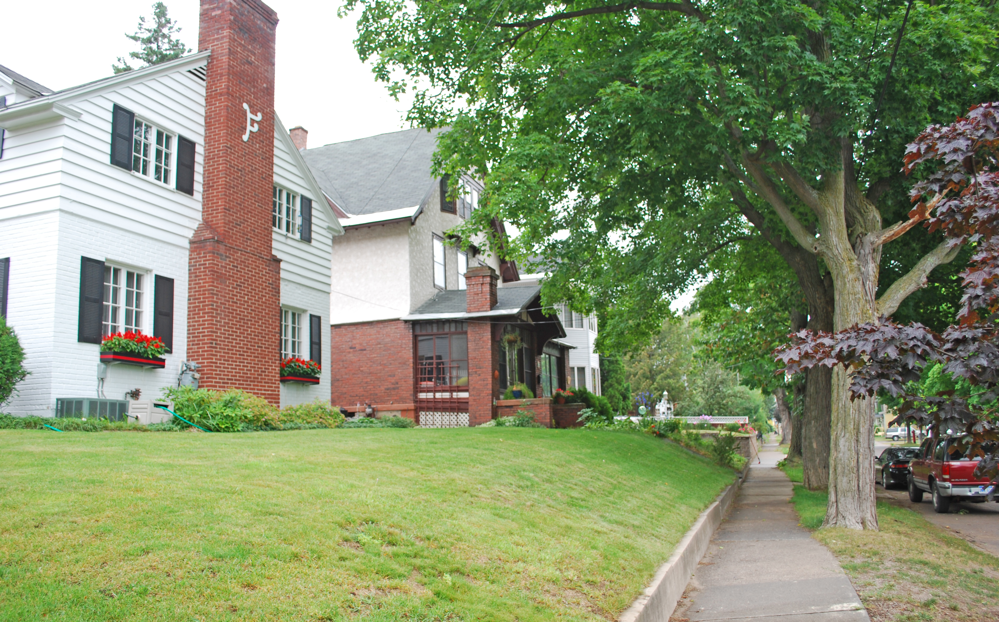 East Hancock MI Neighborhood Historic District street scene